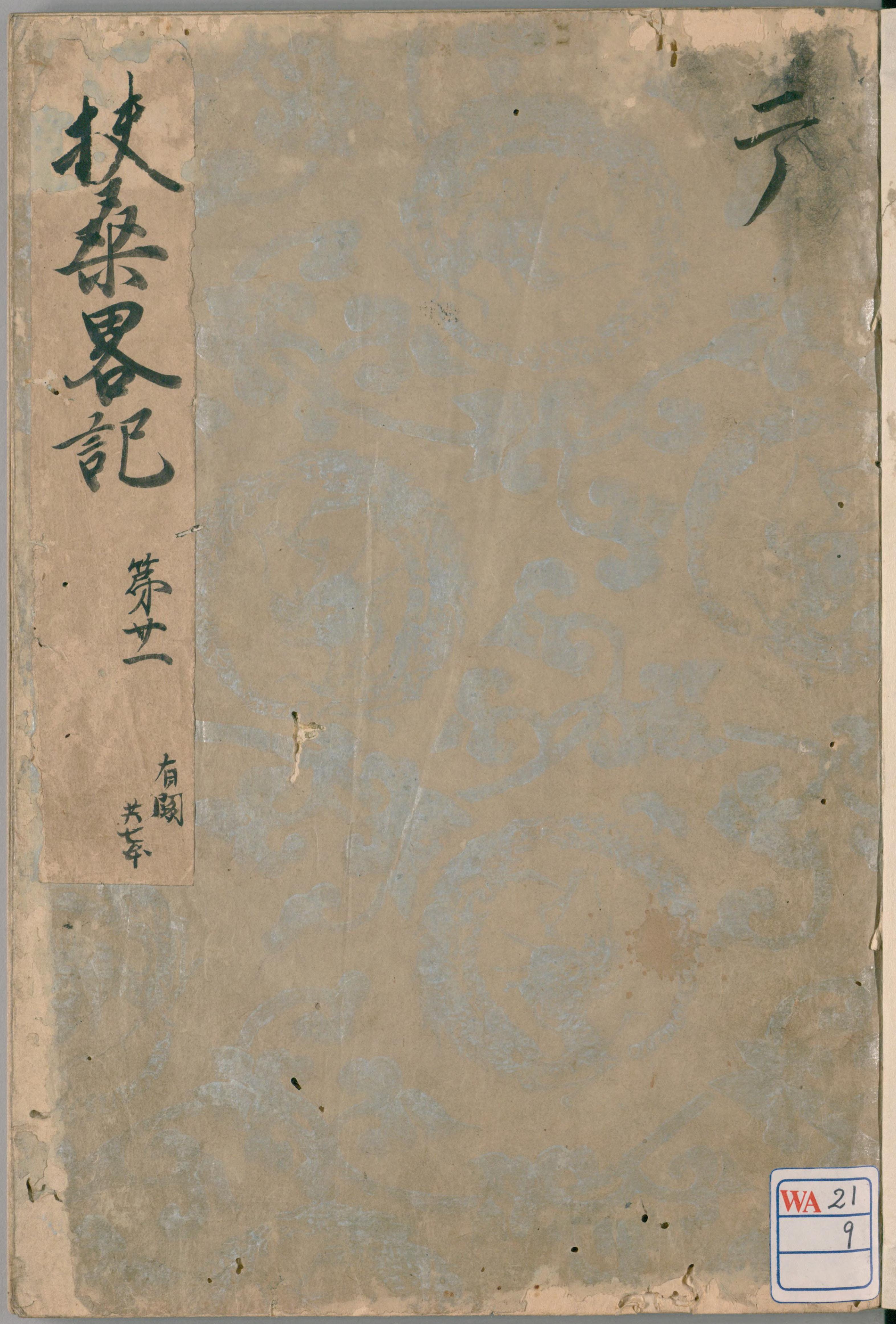 Fusō Ryakki volume 21 title page